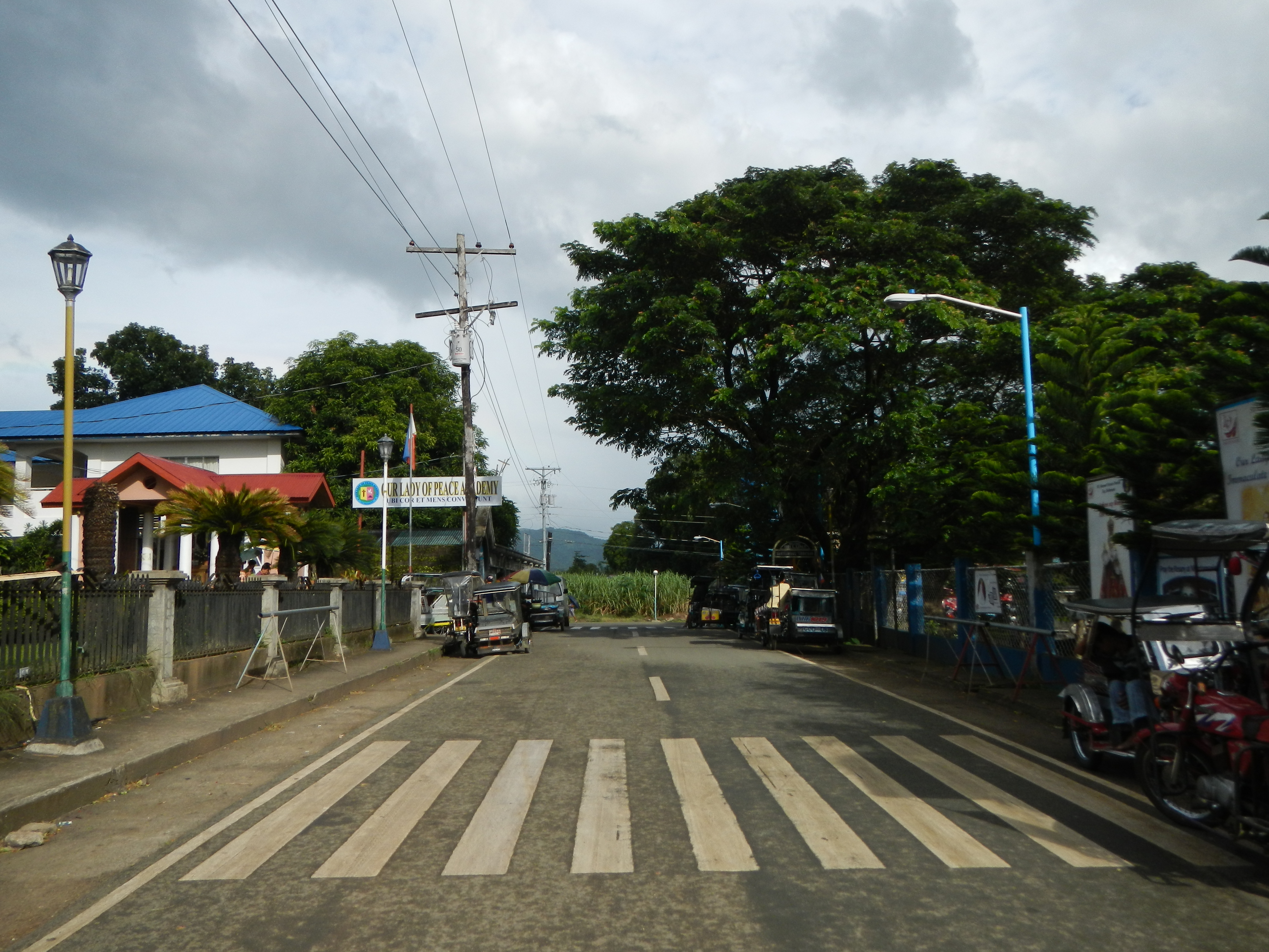 Upload Wizard photo-views of the - the - bell tower, belfry surrounded by Philippine bats (Ancient churches face major threat – from bats UCAN Philippines) at the - Saint Vincent Ferrer Parish Church of Tuy, Batangas, Vicariate I: Vicariate of Saint Francis Xavier, [1] belongs to the Roman Catholic Archbishop of Lipa[2] [3] Roman Catholic Archdiocese of Lipa - Tuy, Batangas[4] (a third class municipality in the Province of Batangas, Philippines; politically subdivided into 22 barangays; population of 40,246 people in 8,925 households.) - its official and logo [5], the - Tuy Municipal Hall Complex offices, Coordinates: 14°1'7"N 120°43'48"E, including the Sangguniang Bayan Session Hall and Offices, Town Proper,Town Plaza, Covered Basketball Court, Gomez st. cor. Rizal st., Barangay Luna Hall, Municipal Engineer's Office, Tuy Food Plaza, Tuy Public Market, Plaza, Park, Centro, downtown, Town Proper, TMVCMPC, Police Station, Tuy Vocational School, among others - Our Lady of Peace Academy Coordinates: 14°1'12"N 120°43'50"E [6]).